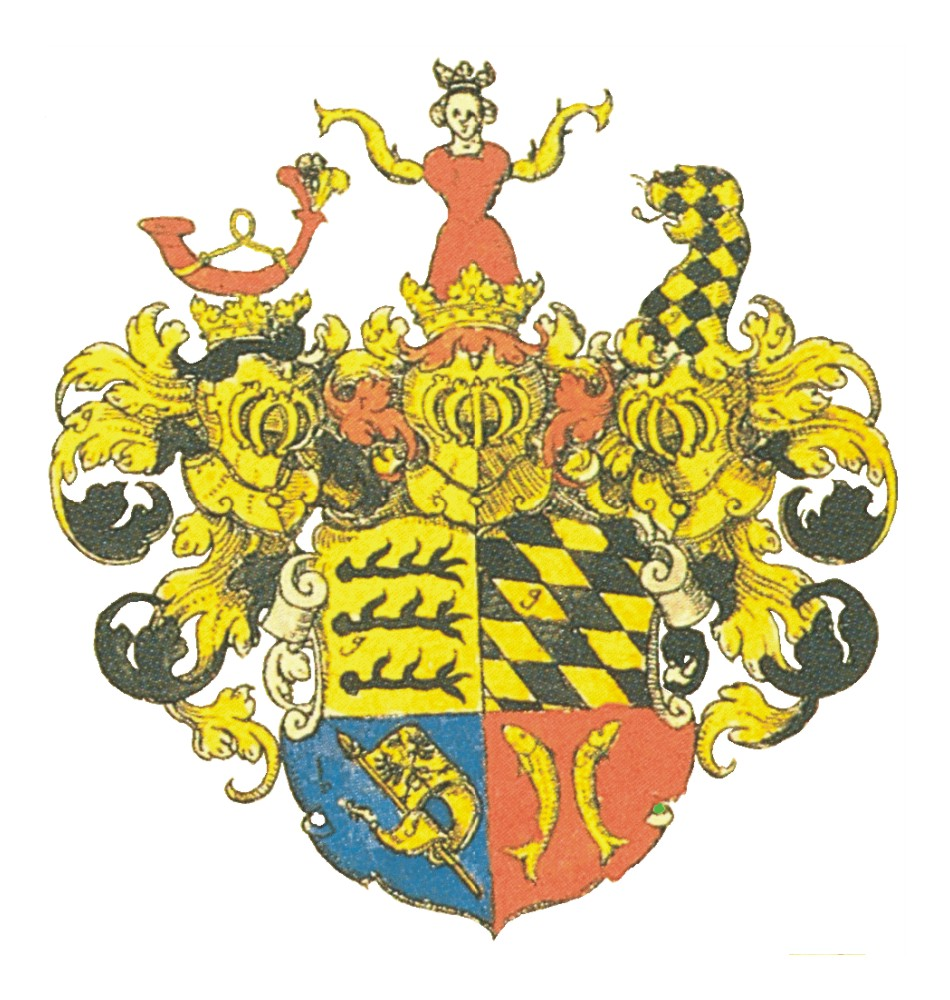 Coat of arms of the duke of Wuerttemberg in 1703